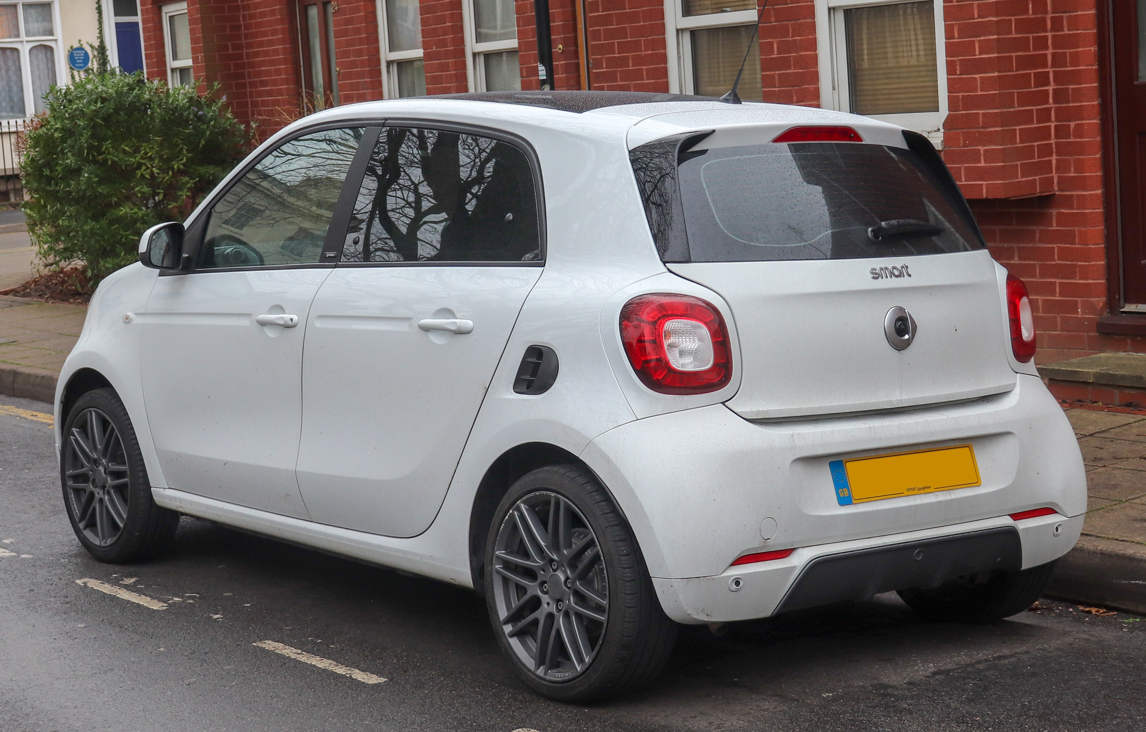 2018 Smart Forfour Brabus Sport Premium 900cc Rear Taken in Leamington Spa